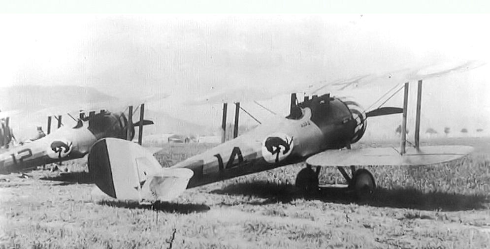 Nieuport 28 pursuit aircraft of the 95th Aero Squadron, Gengault Aerodrome, near Toul, France, June, 1918